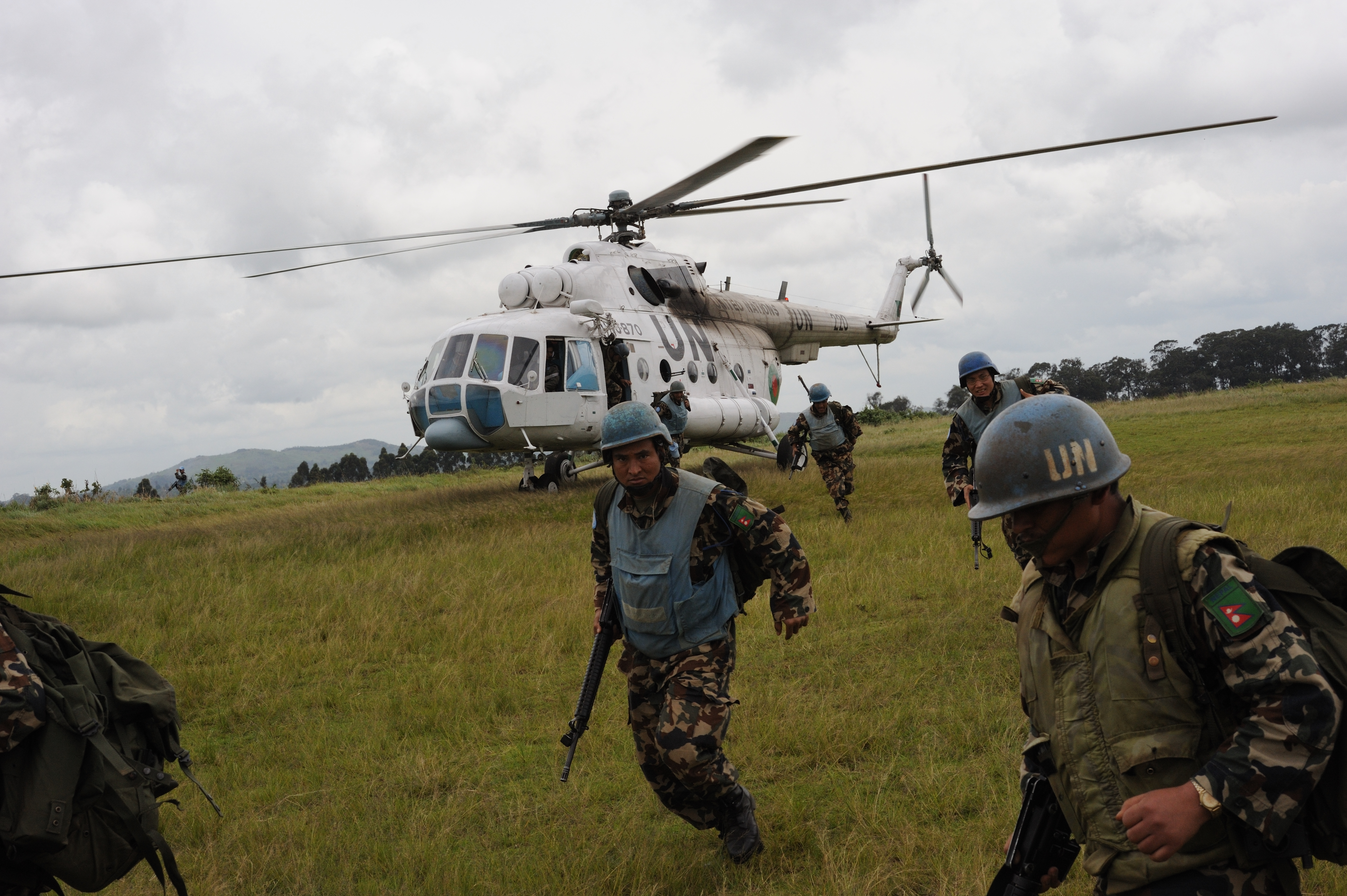 As we waited for our helicopter back to Bunia UN Nepali troops came back in from a helicopter patrol close by Kpandroma. The area is much more peaceful than during last years fighting but there is always a risk.